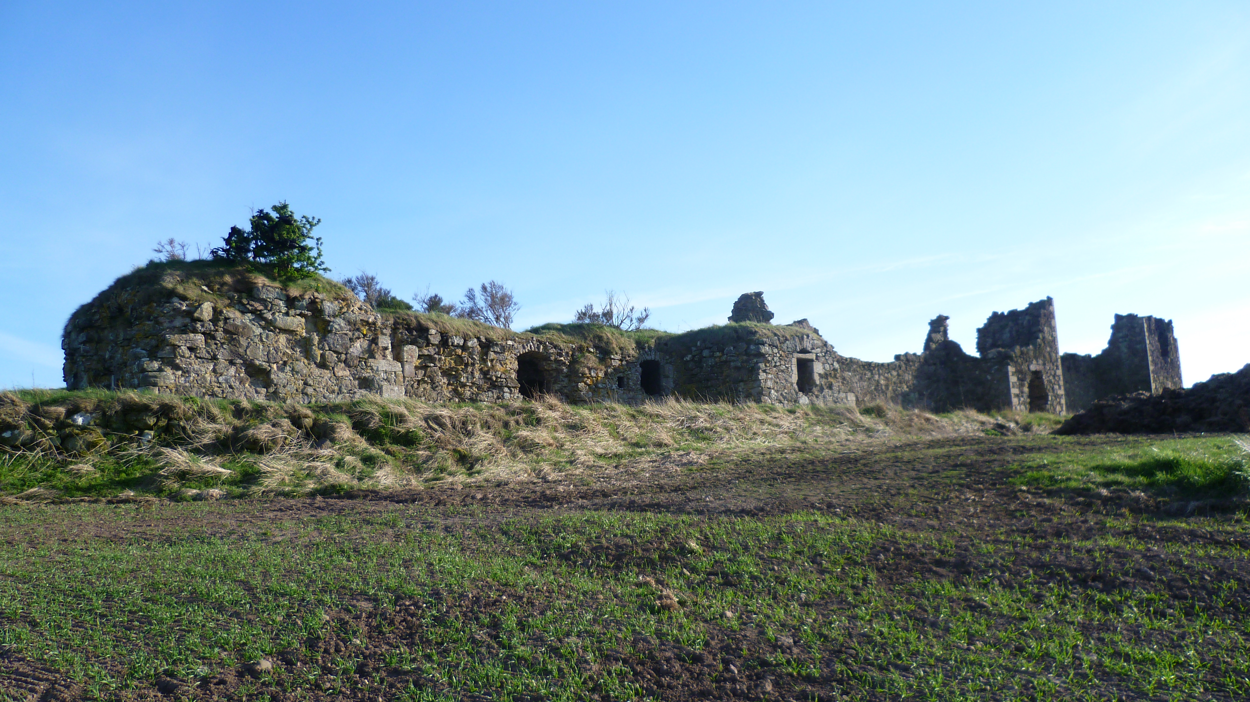 Barnes Castle, East Lothian